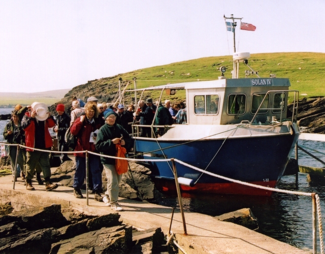 Mousa Ferry. Passengers disembarking from the ferry on arrival at Mousa